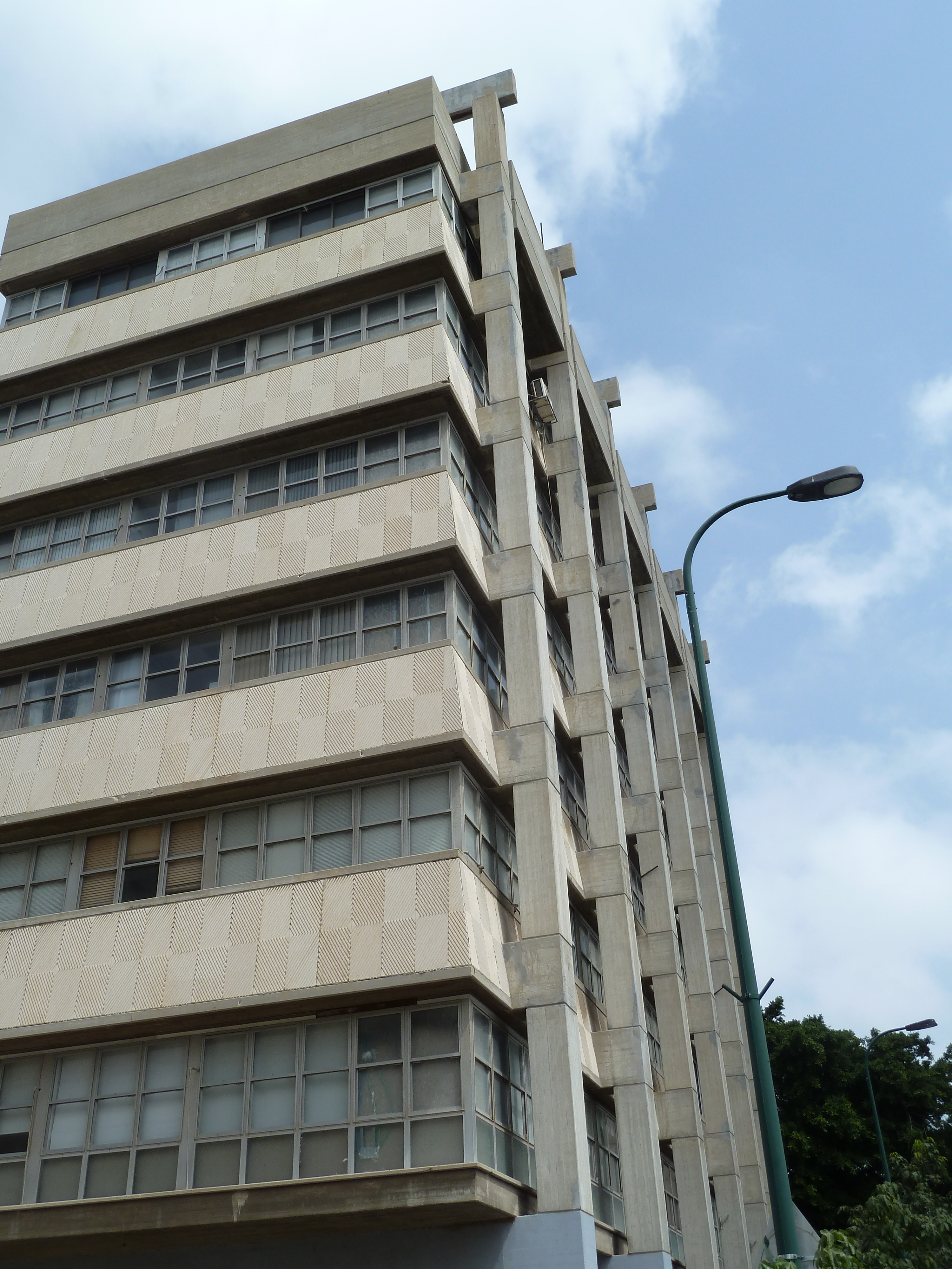 Kibbutz Movement House, Tel Aviv, Israel